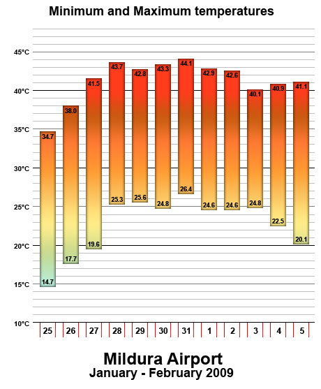 A graph of the minimum and maximum temperatures recorded in Mildura, Victoria at the airport during the 2009 Southeastern Australia heat wave.